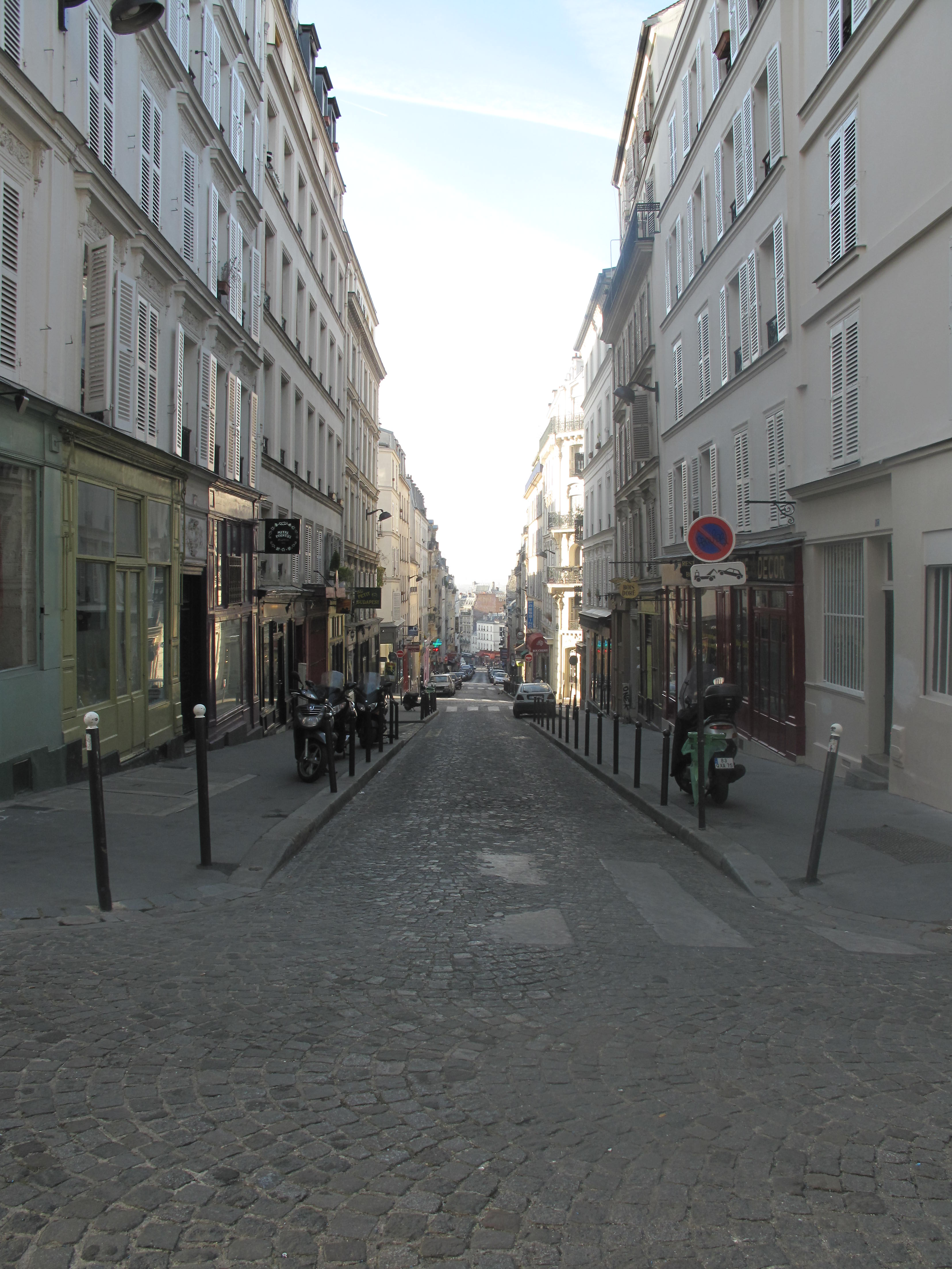 The rue des Martyrs seen from its beginning looking to the south. Paris 9th arr.